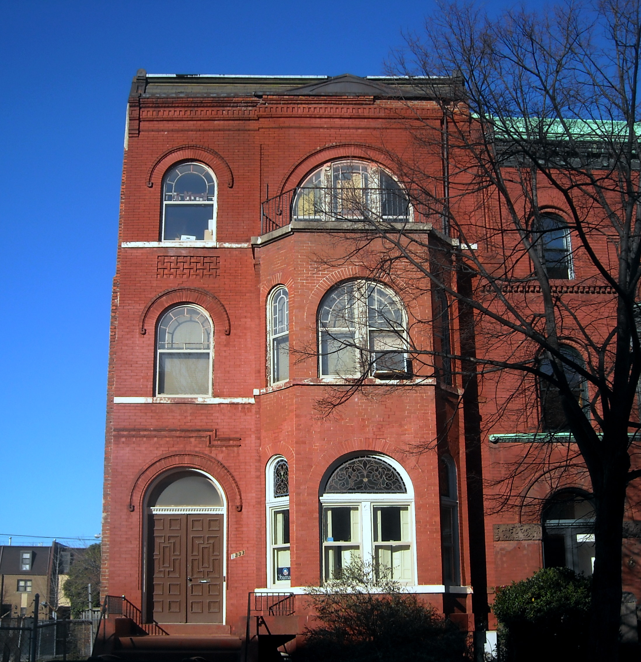 1333 R Street, N.W., located in the Logan Circle neighborhood of Washington, D.C. Built in 1895, the house is a contributing property to the Fourteenth Street Historic District, listed on the National Register of Historic Places in 1994. Notable past occupants of the home include U.S. Senator James L. Pugh, U.S. Representative Charles H. Burke, New Negro Alliance president Eugene Leon Coates Davidson, NAACP secretary James Weldon Johnson, and art professor James Lesesne Wells.